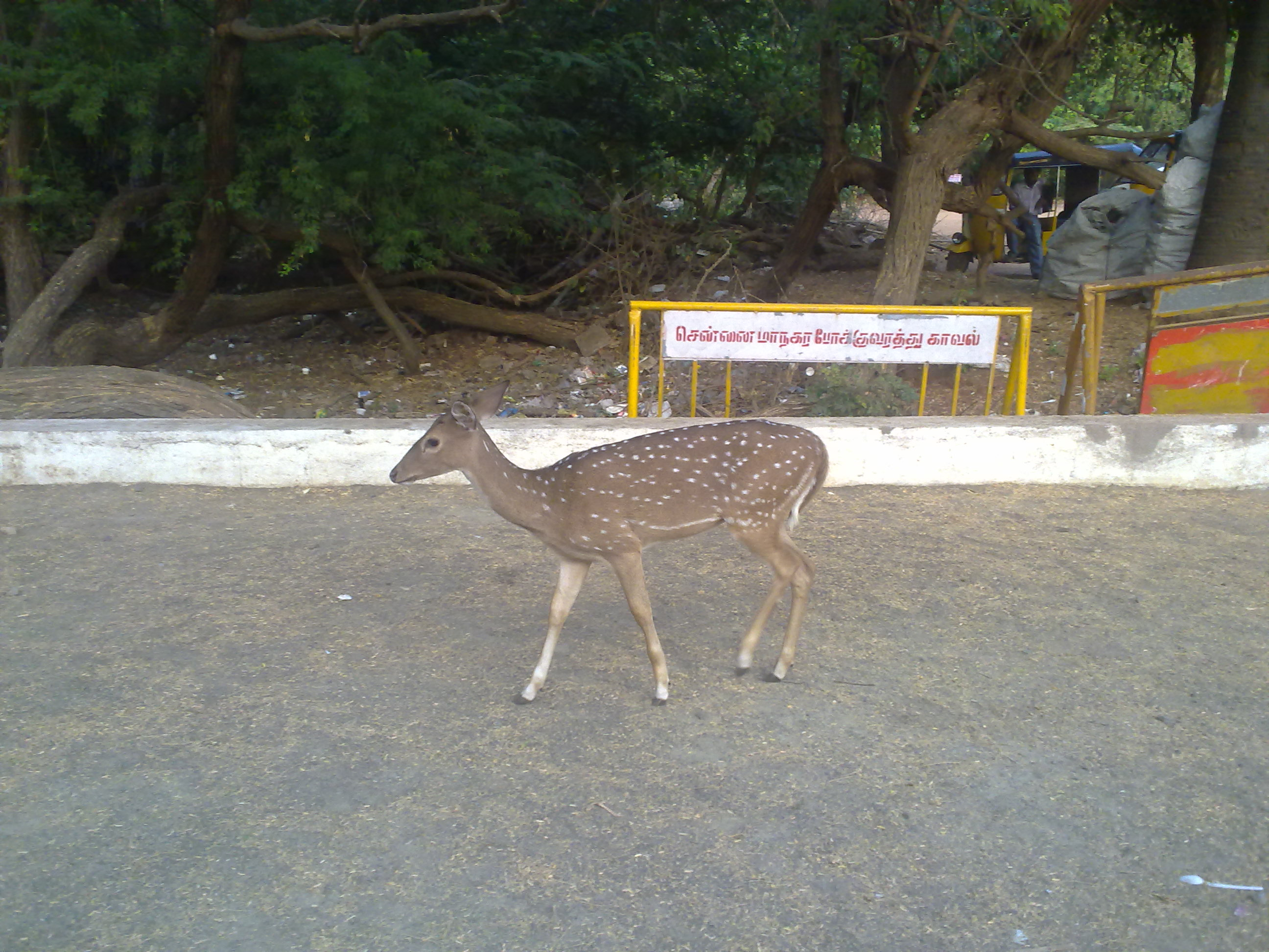 This photo depicting Deer in Chennai Children Park.